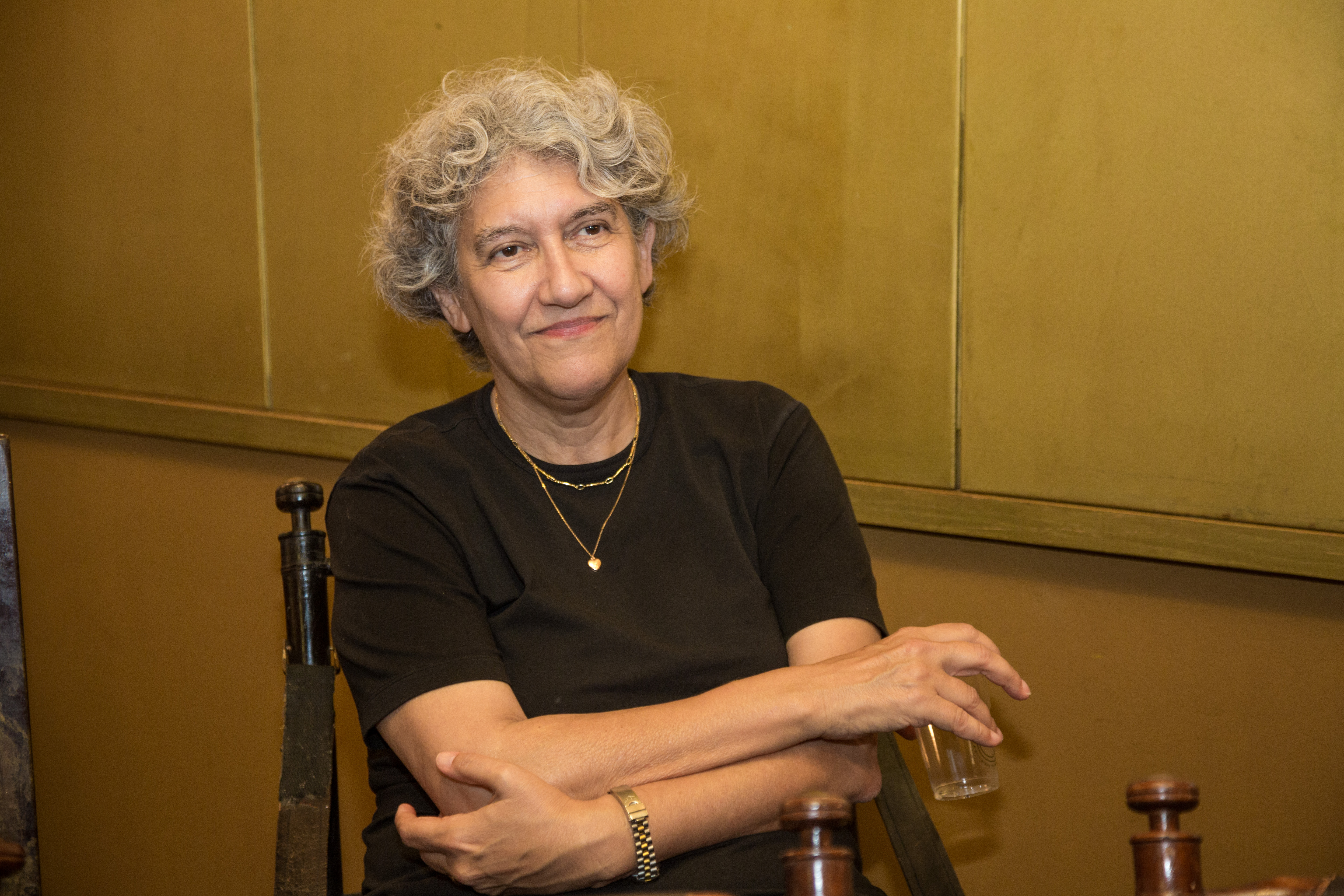 Orna Lin at Wikimedia Israel 10th anniversary event - 6/9/2017